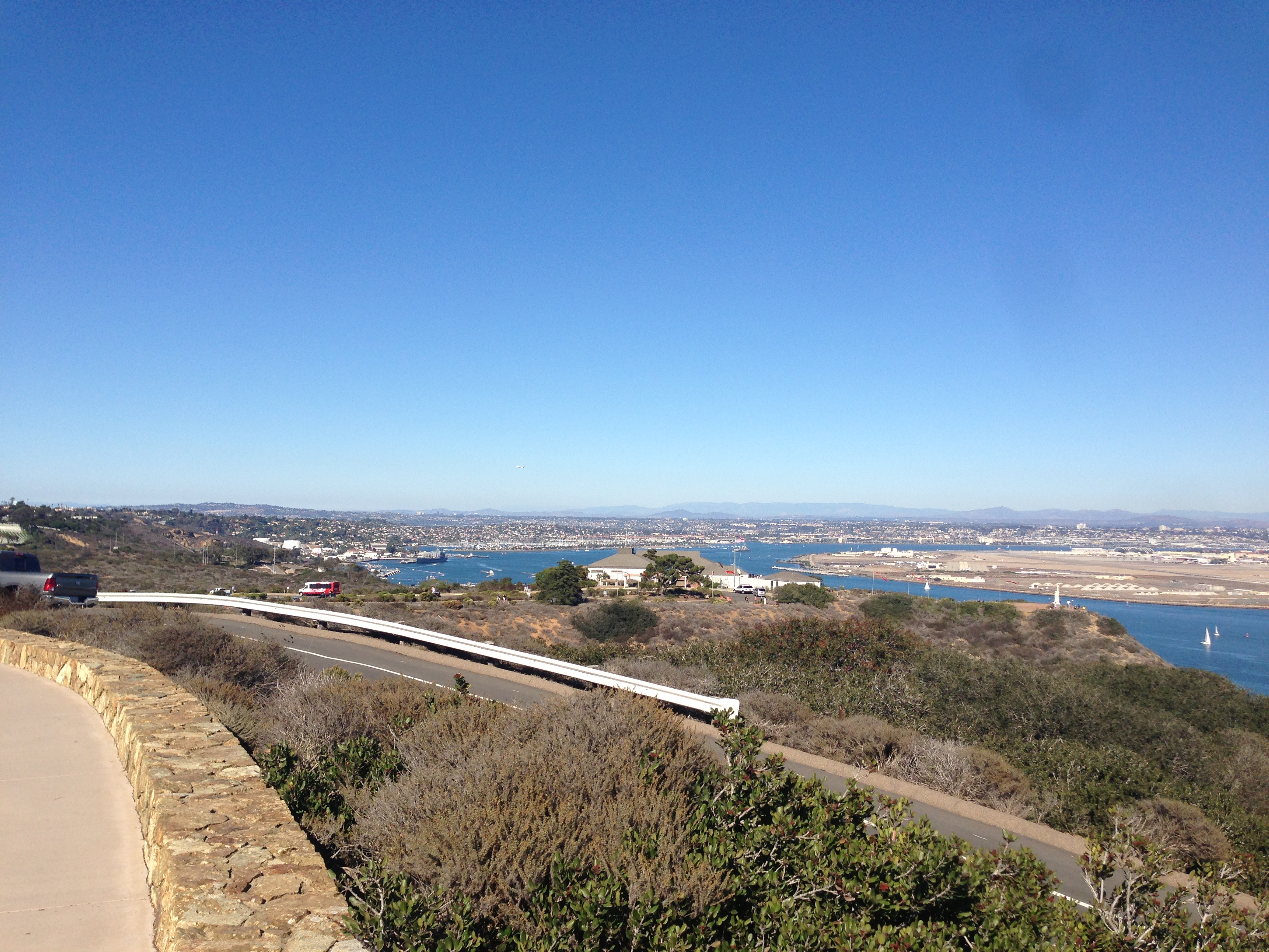 View of San Diego from Point Loma near the old lighthouse